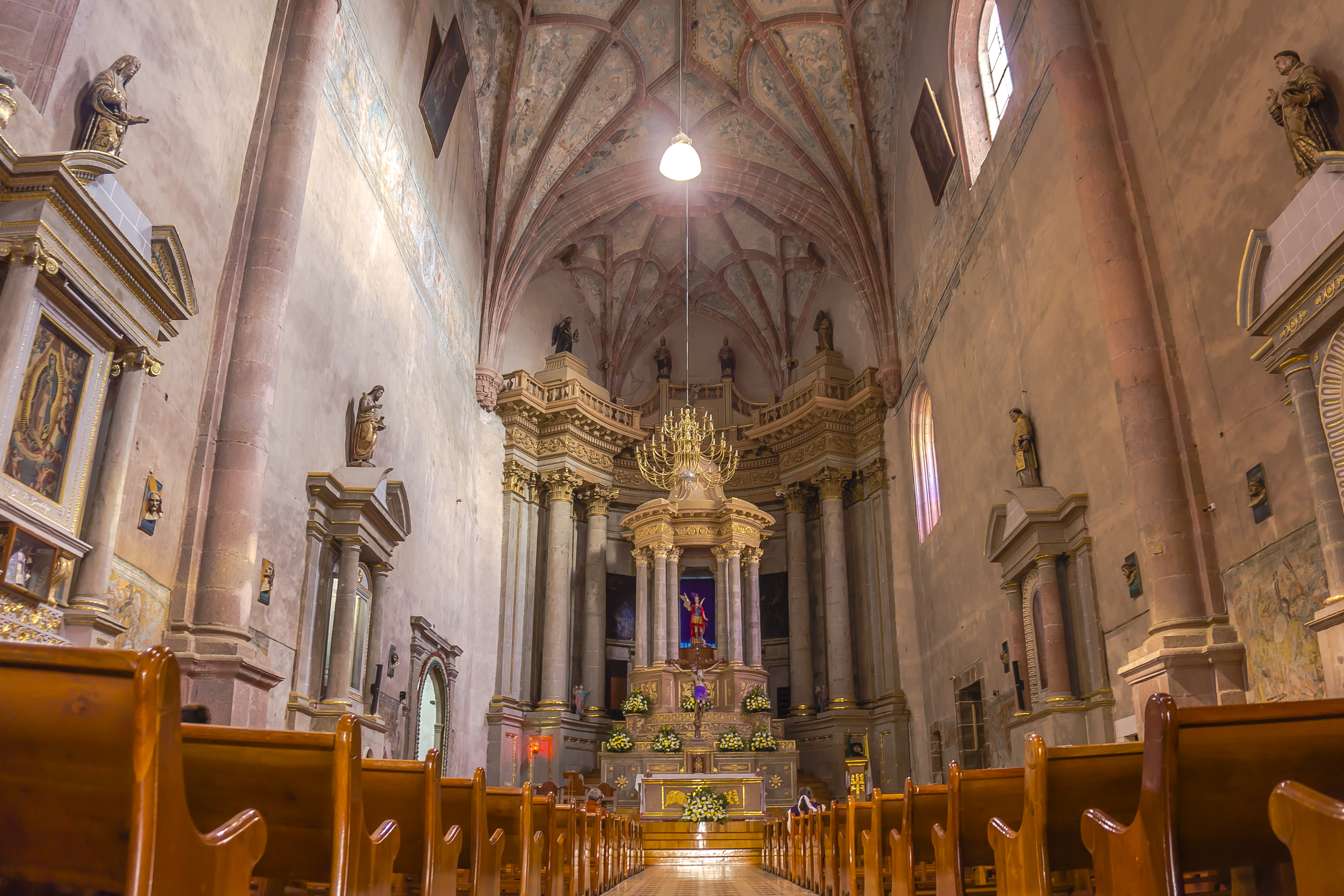 Church of San Miguel Arcangel